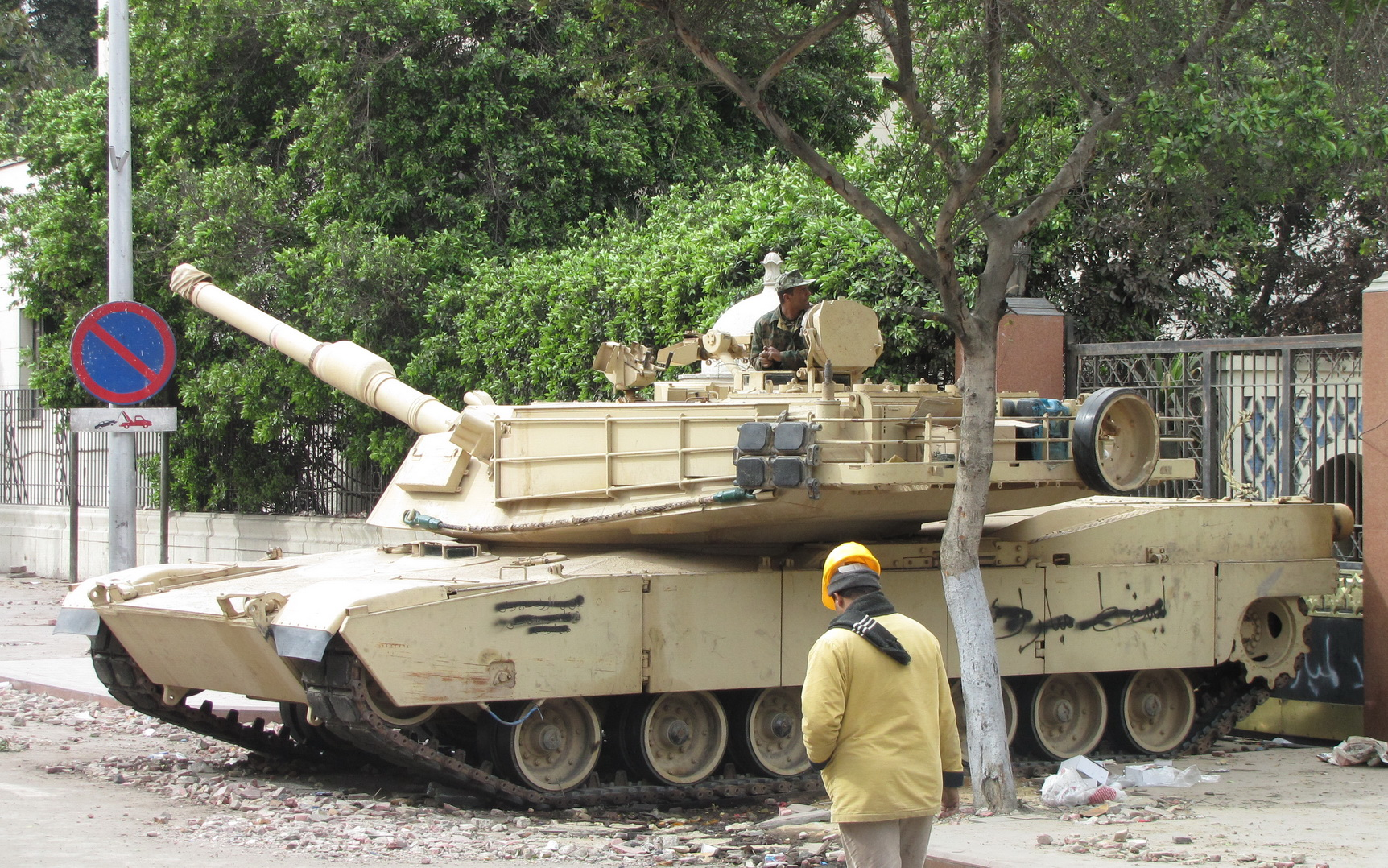 An Egyptian army M1 Abrams tank placed near Tahrir Square during the 2011 Egyptian protests.